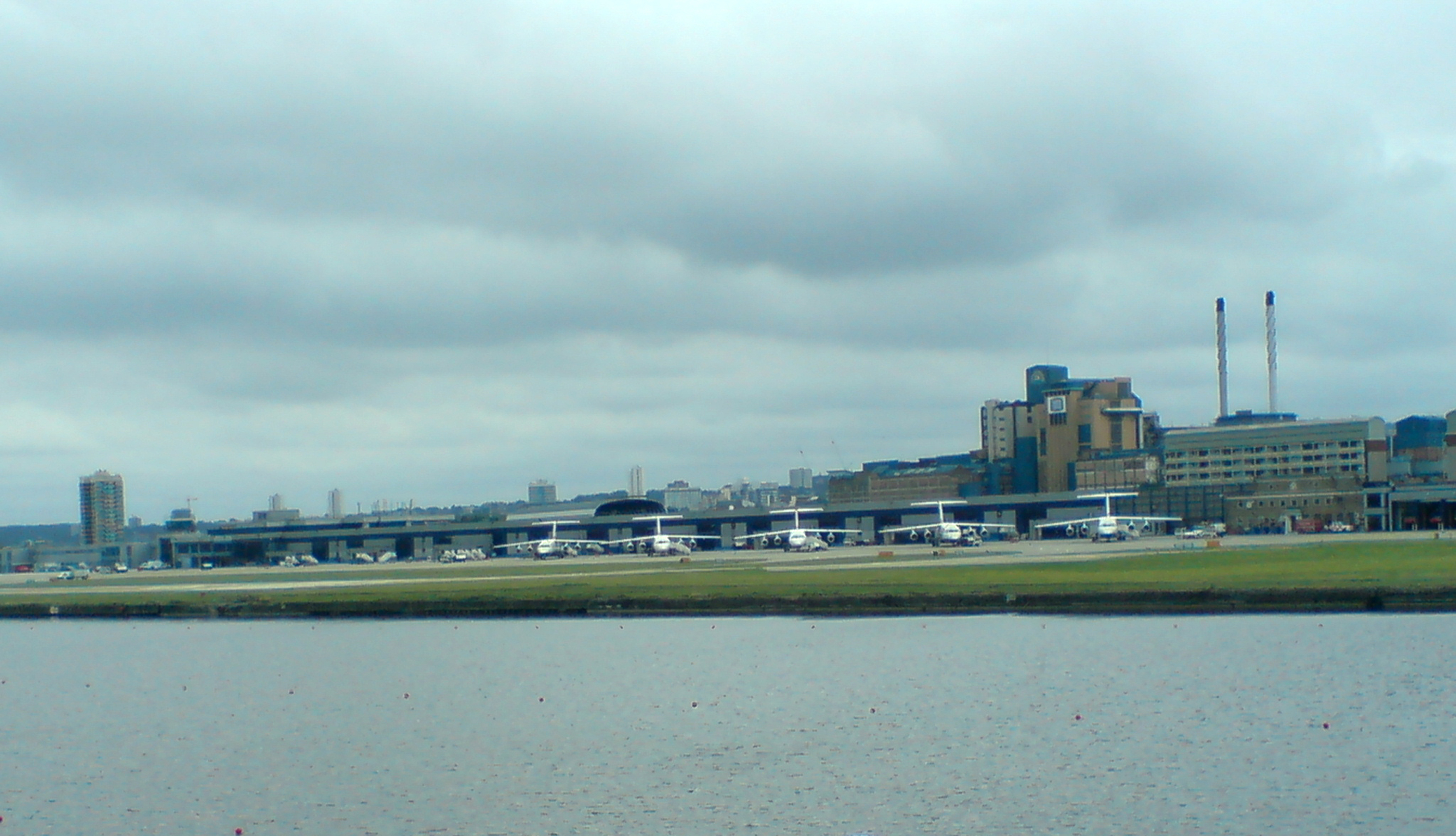 London City Airport and the surrounding Dockland.